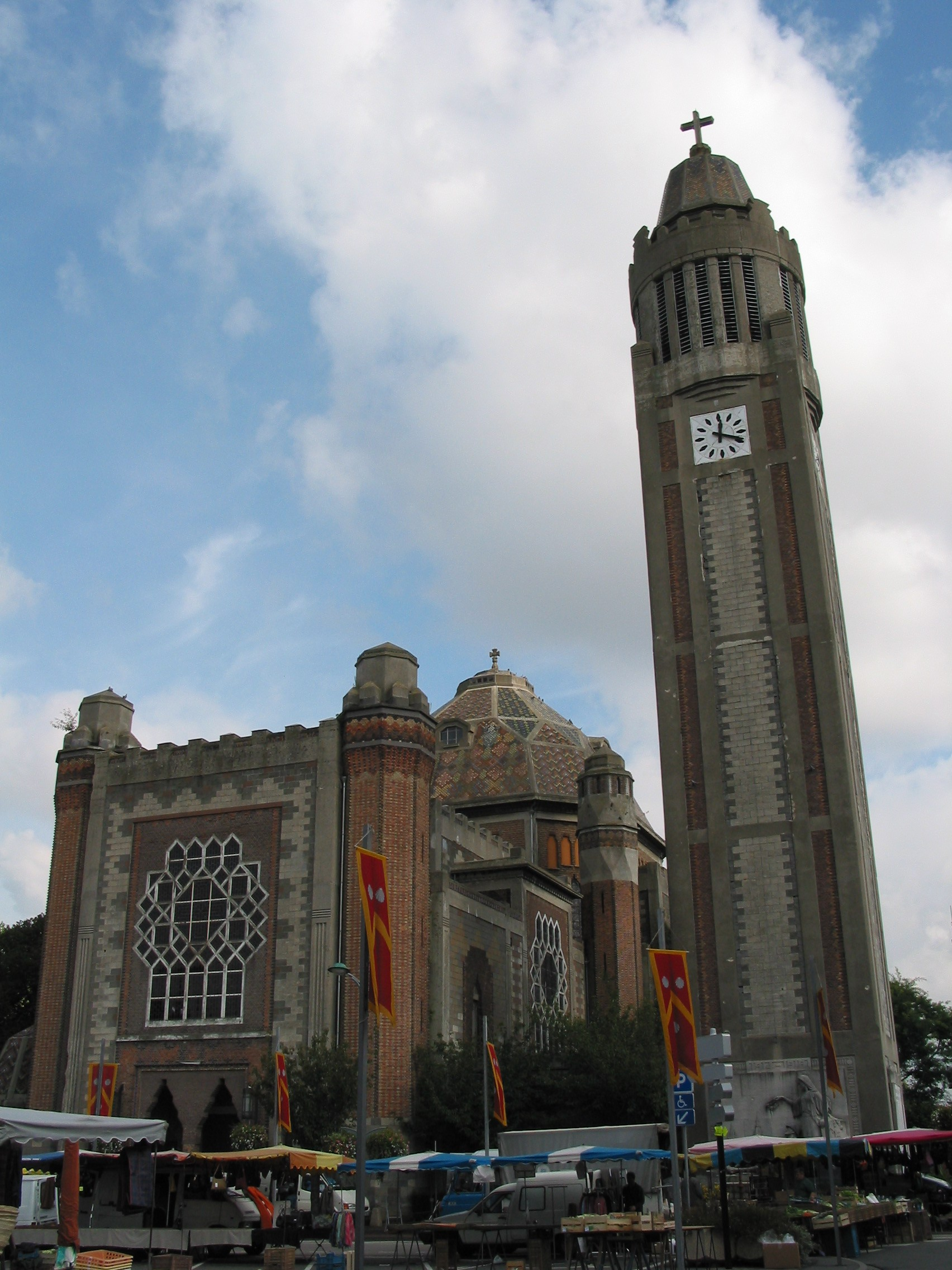 Comines, Nord (France), the church of St. Chrysole (1925).